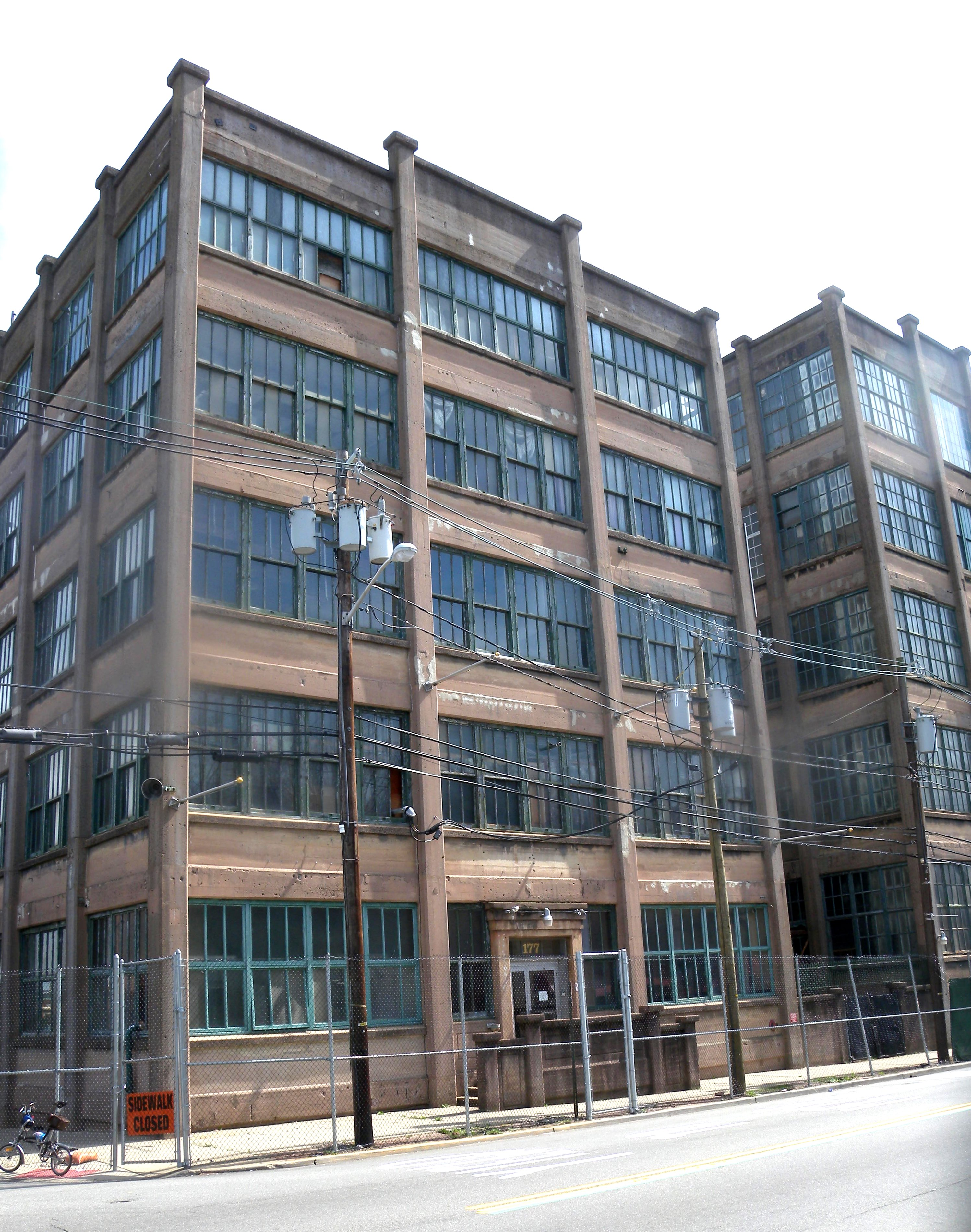 Looking southeast across Main Street and Lakeside Avenue at the Edison Storage Battery Company Building on a sunny midday.